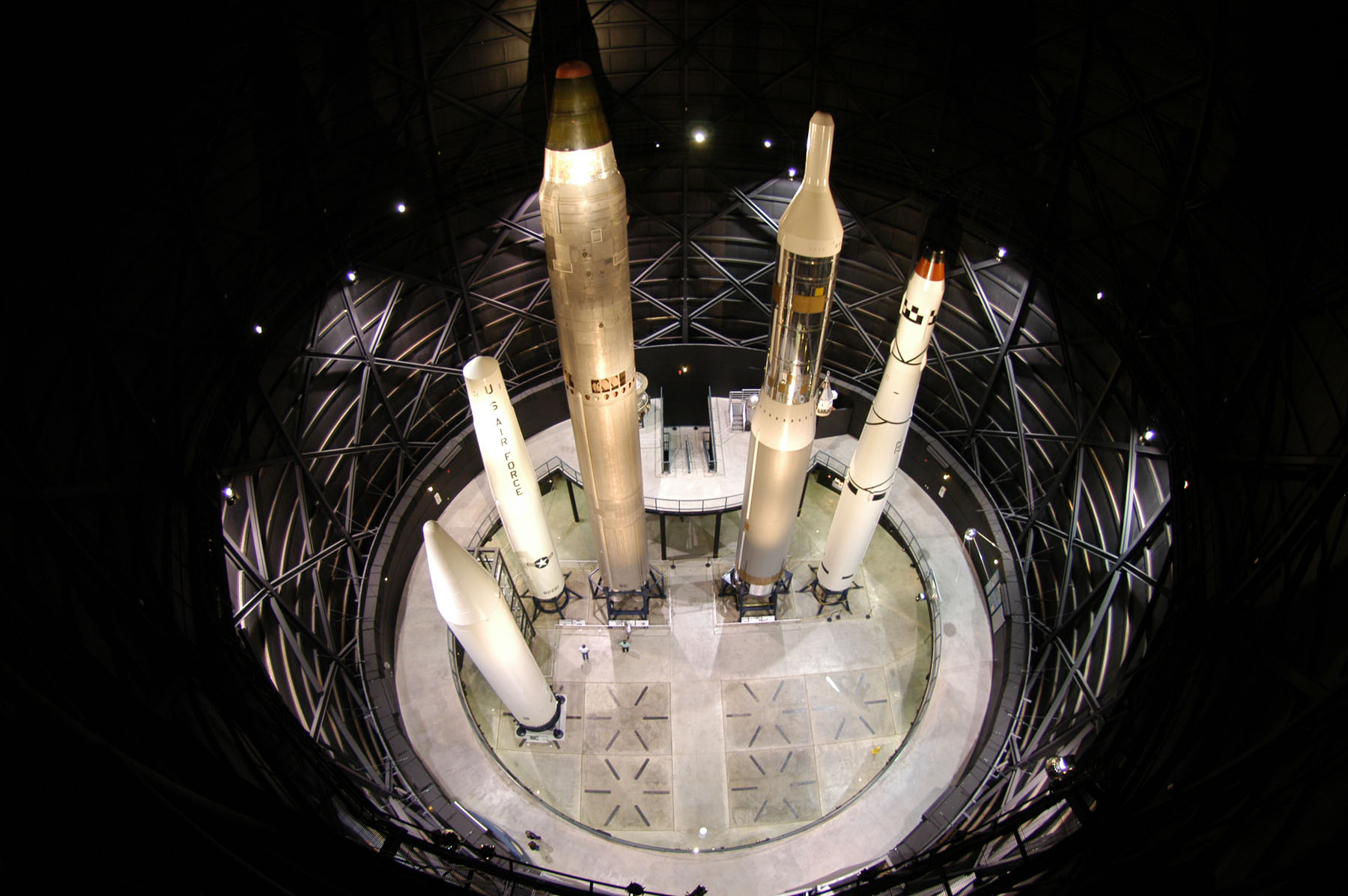 DAYTON, Ohio - Missile and Space Gallery overview at the National Museum of the U.S. Air Force. (U.S. Air Force photo) From left, PGM-19 Jupiter, PGM-17 Thor, LGM-25C Titan II, HGM-25A Titan I, Thor Agena A.